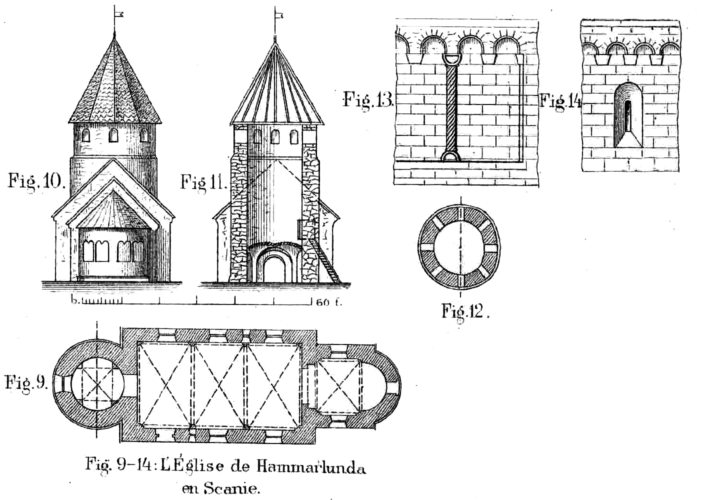 Hammarlunda church in Sweden in the mid 1800's. Drawing: Nils Månsson Mandelgren, published 1883.